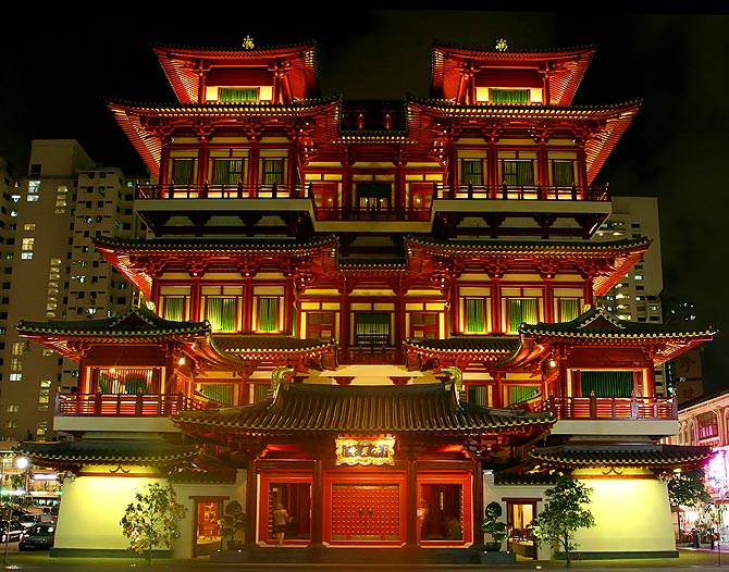 Night shot of The Buddha Tooth Relic Temple and Museum from South Bridge Road.